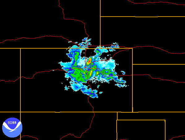 This is a radar image of snow from NWS Denver NEXRAD radar and was made using JAVA NEXRAD tool.